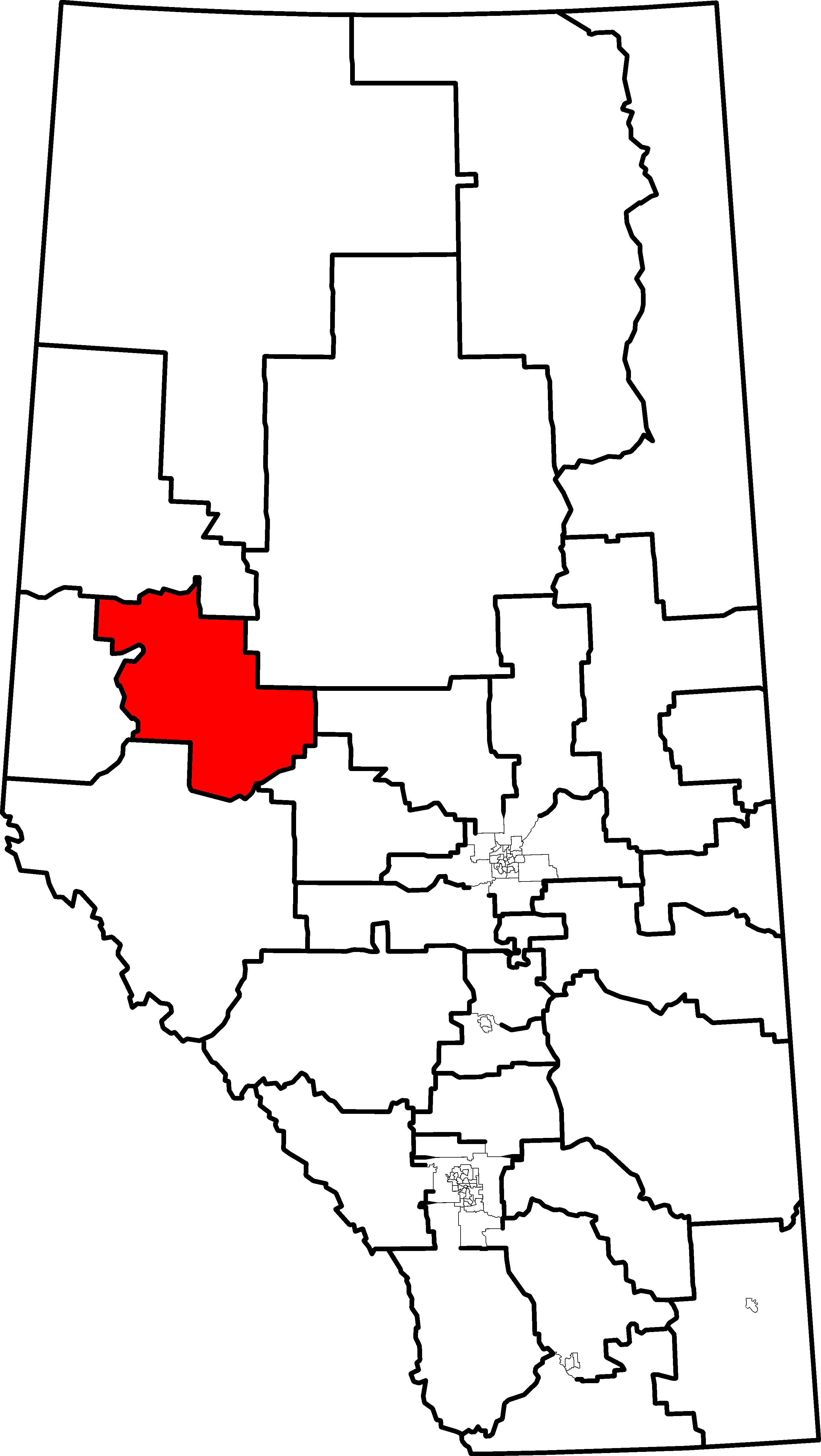 A map of the Alberta provincial electoral districts, effective 2010. Grande Prairie-Smoky is highlighted in red.